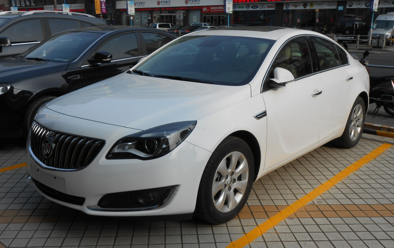 Buick Regal CN II facelift photographed in Shanghai, China.